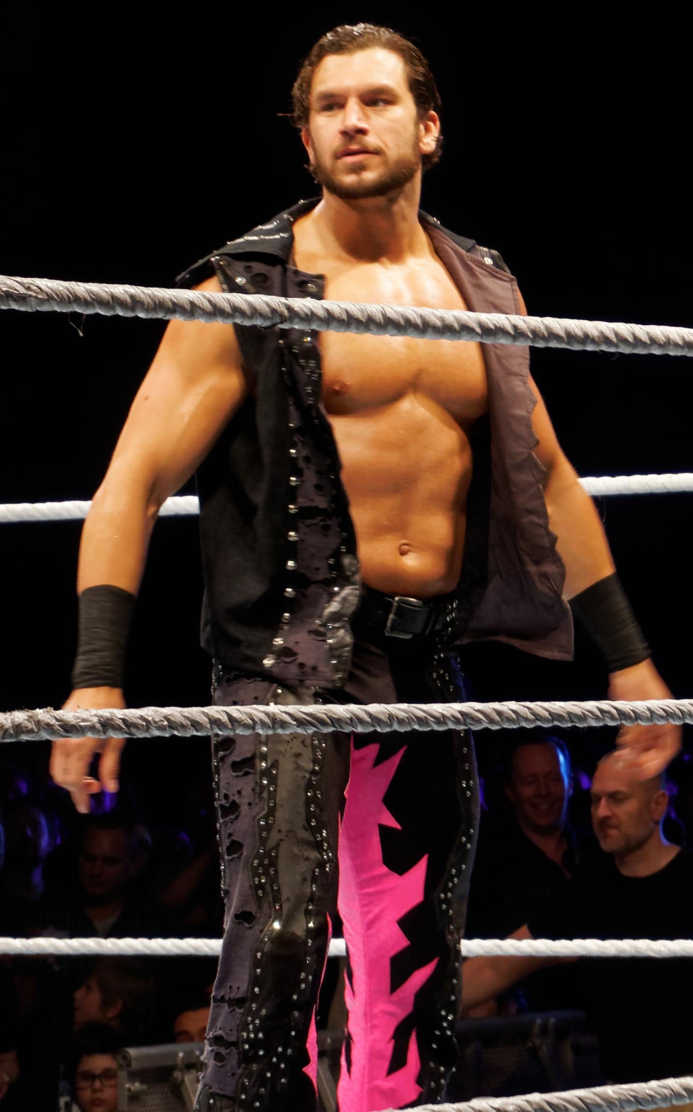 Fandango in April 2016